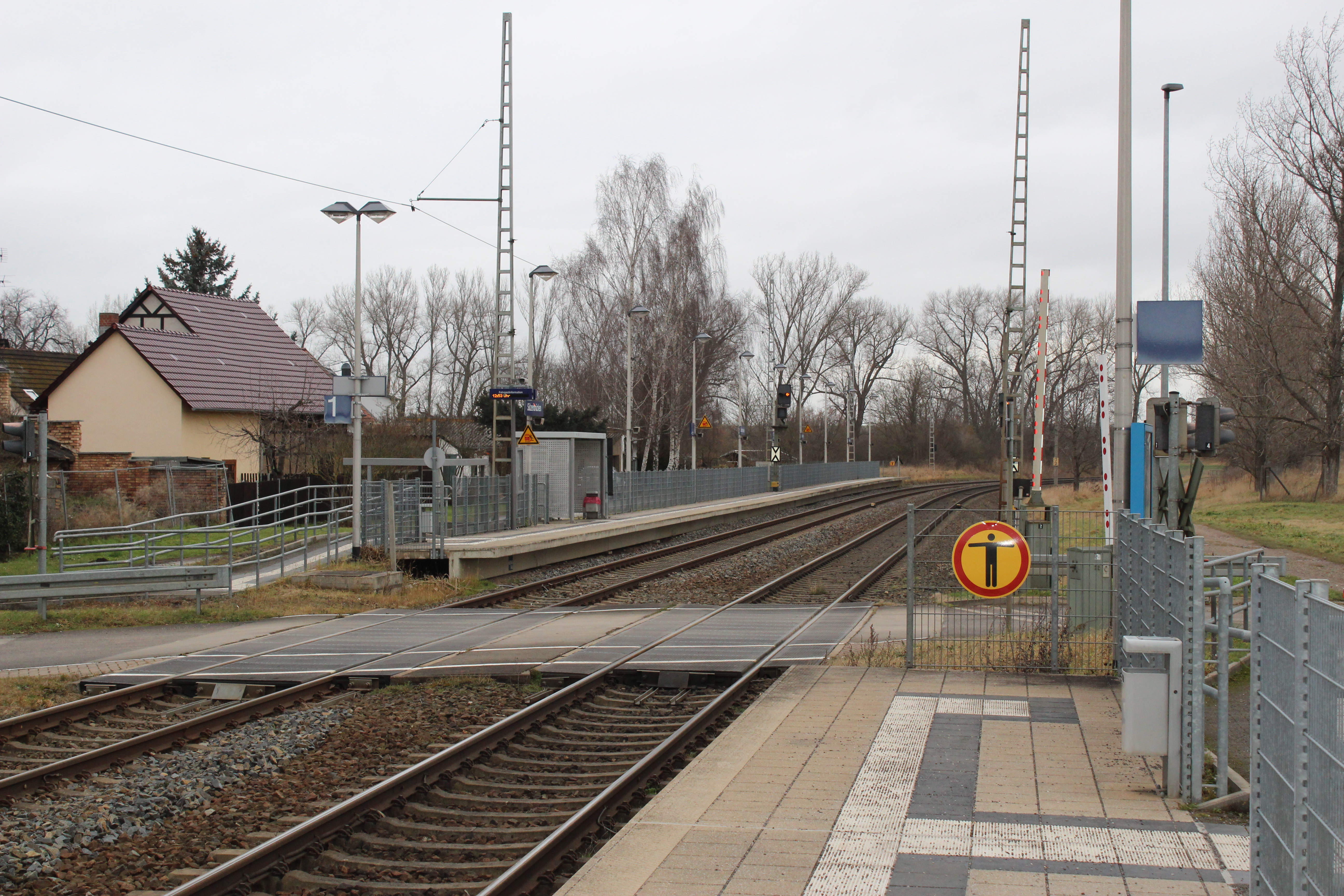 train station Sülzenbrücken